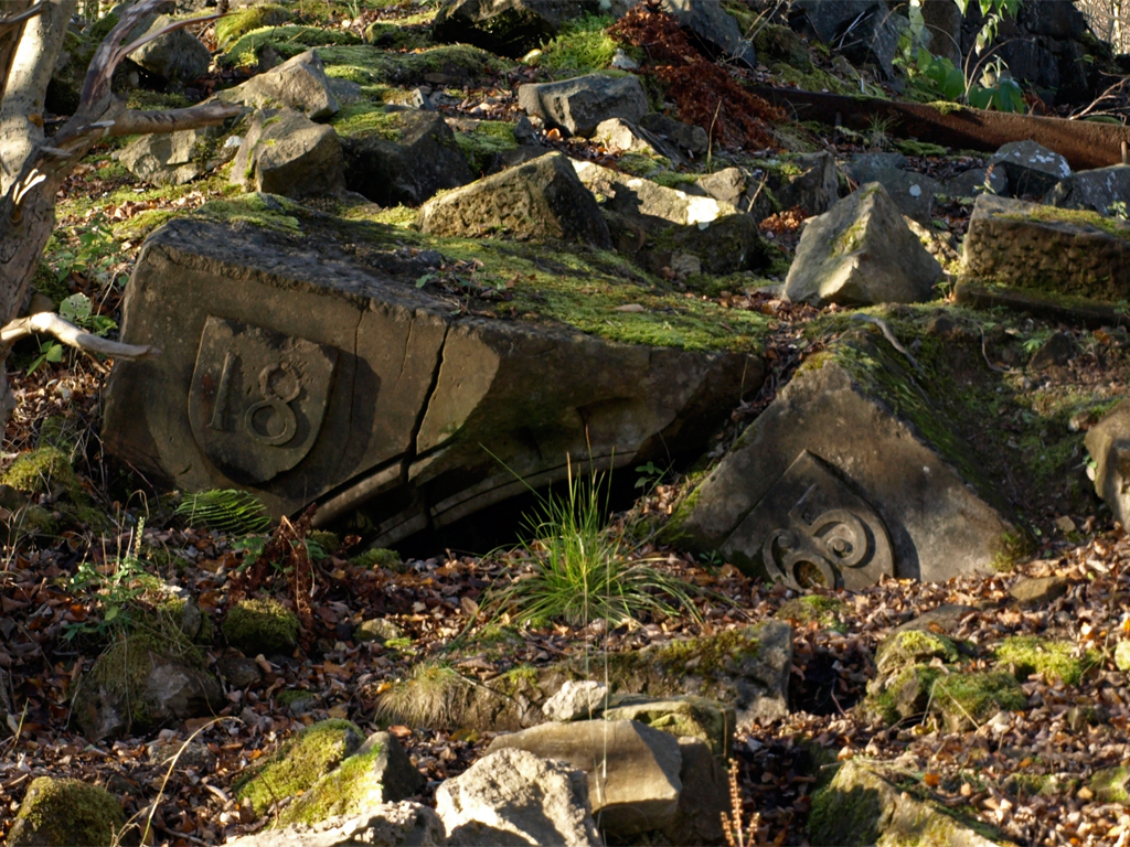 Ruins of Polmaise Castle, Gillies Hill, Scotland